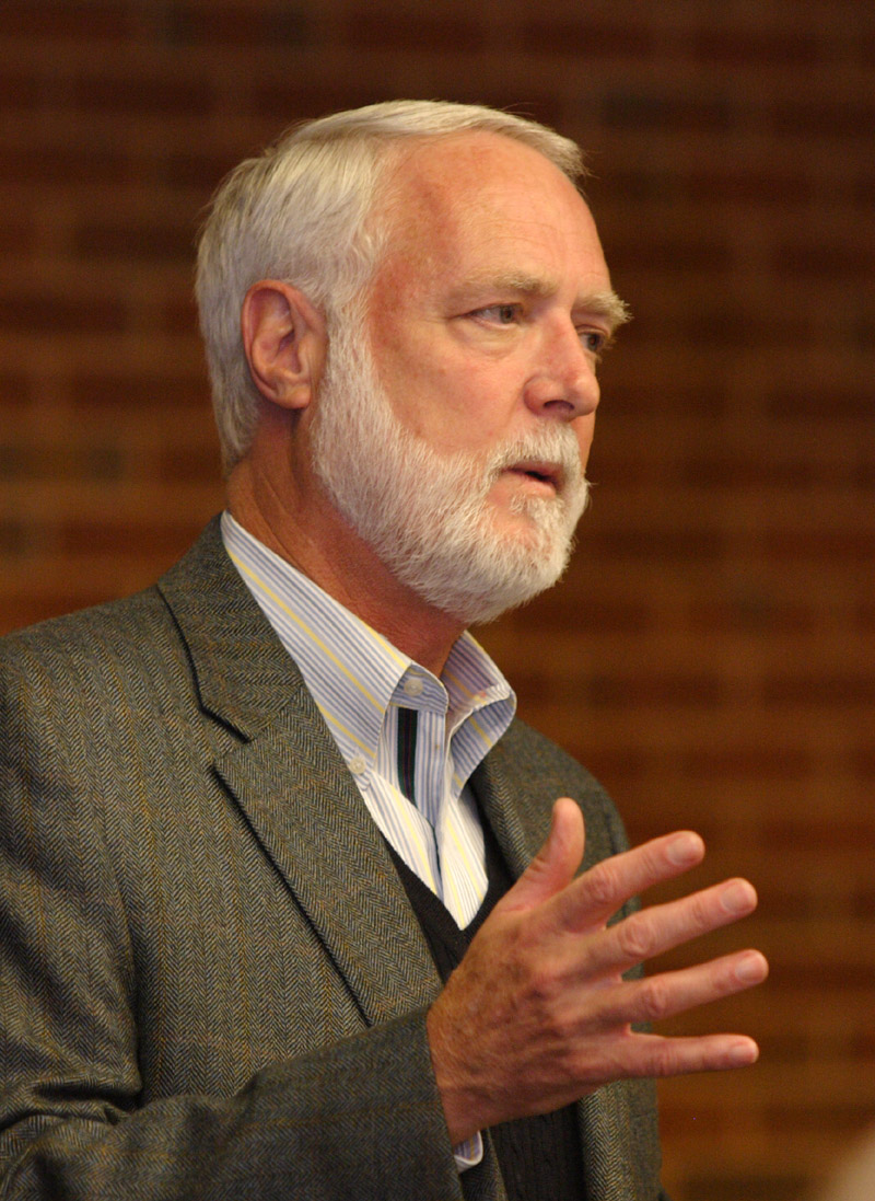 Dr. Wayne Clough, President of Georgia Tech, speaks at a student meeting. Released under CC BY-SA 2.5 license by the photographer, Ethan Trewhitt